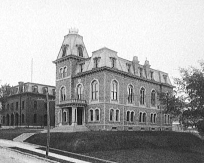 Historic Federal Courthouses Burlington, Vermont U.S. Post Office and Court House (n.d., ca. 1900) Completed in 1870. Supervising Architect: Alfred B. Mullett Building used by the U.S. District Court for the District of Vermont; the U.S. Circuit Court for the District of Vermont met here until that court was abolished in 1912. Destroyed by fire in 1982.